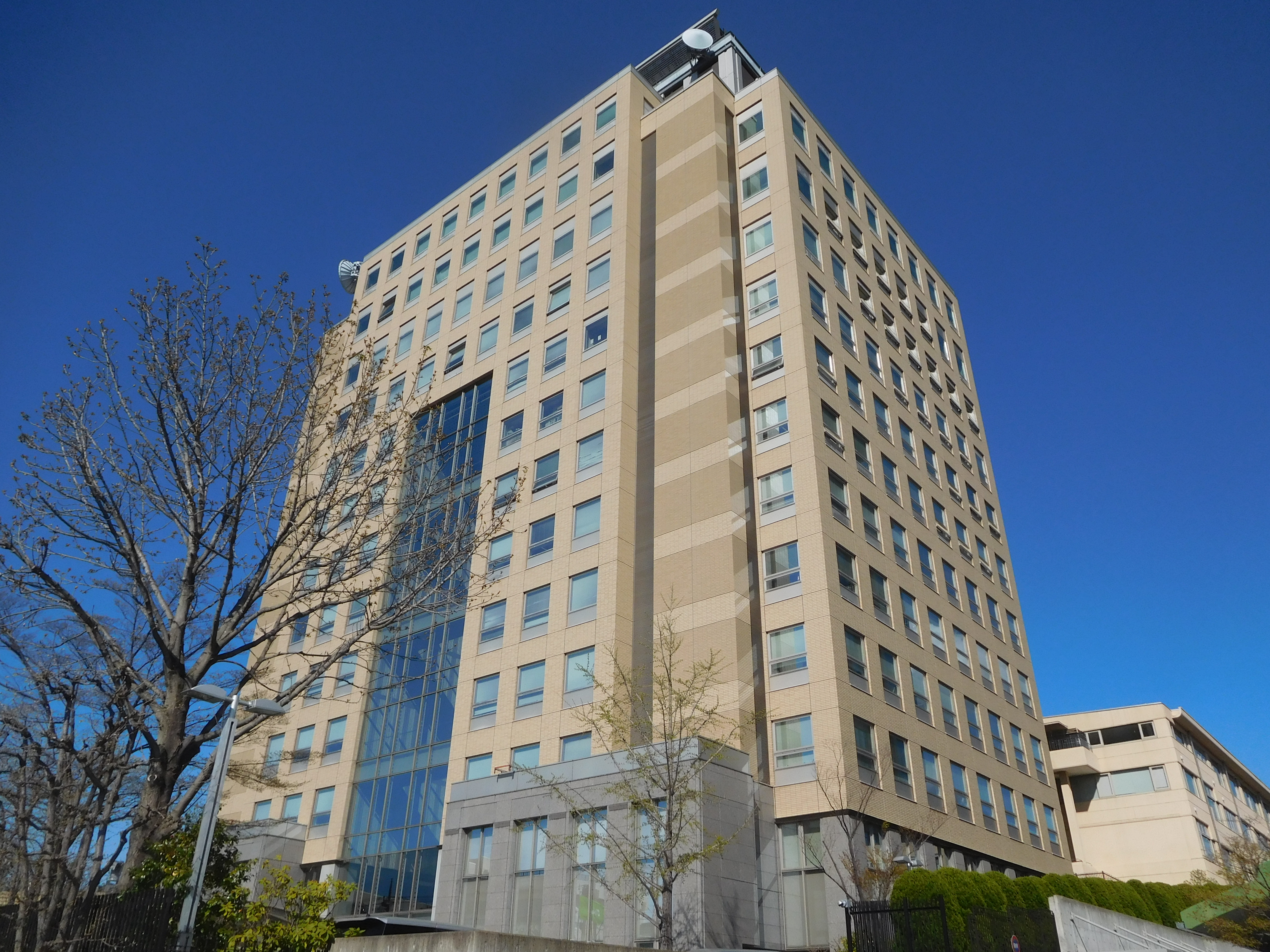 This is Tochigi Prefectural Police Headquarters in Utsunomiya, Tochigi, Japan.